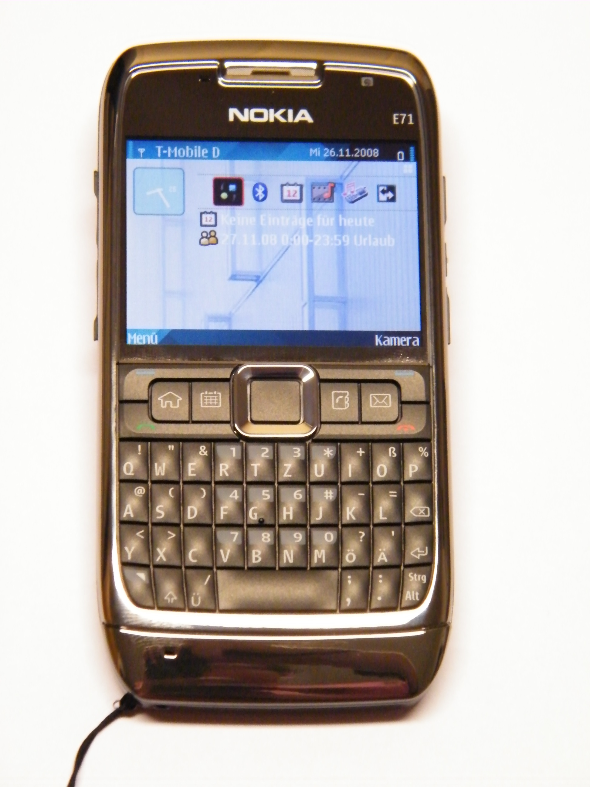 Nokia E71